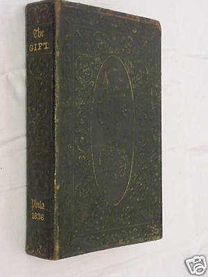 A scan of the cover of the 1836 edition of The Gift: A Christmas and New Year's Present for 1836 published in Philadelphia by Carey and Hart and edited by Miss Leslie in 1836. Included in the collection is the short story "MS. Found in a Bottle" by Edgar Allan Poe.